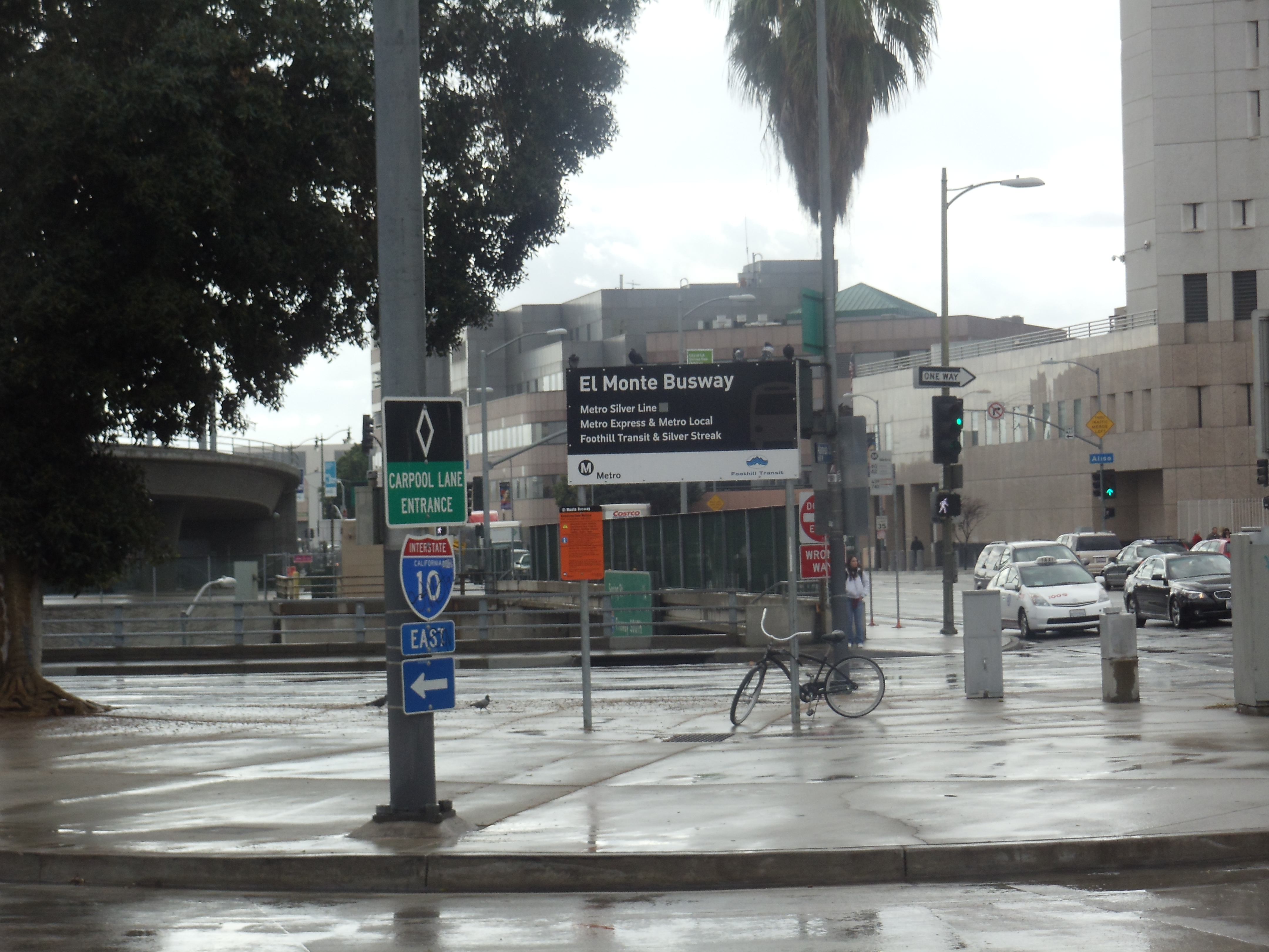 El Monte Busway & Alameda- Union Station- Metro Silver Line bus stop. This stop will eventually become replaced by a new busway station near the Patsouras Transit Plaza in 2014.